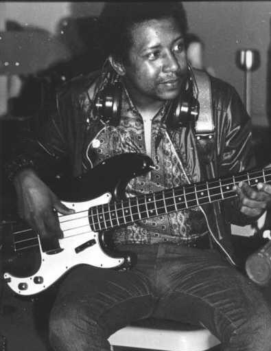 Billy Cox